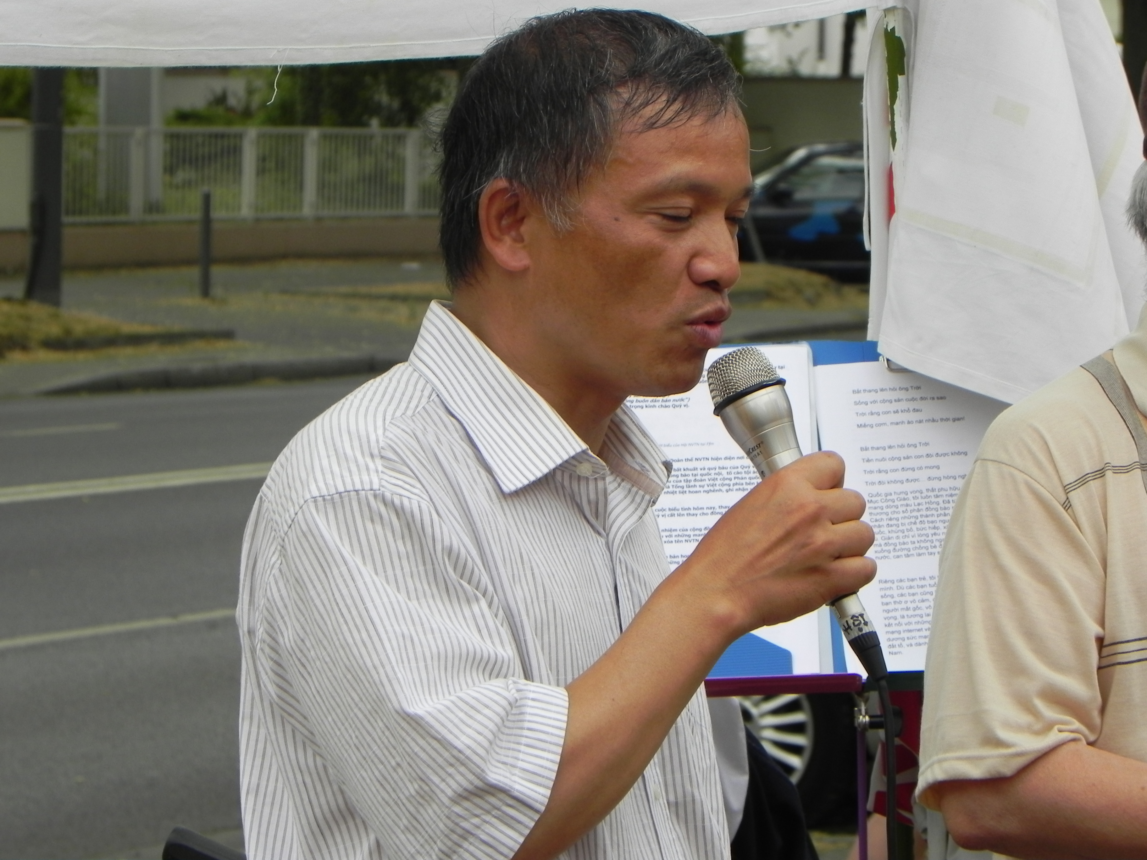 Nguyễn Văn Đài speaks in a demonstration against special economic zone law and cybersecurity law opposite Vietnamese consulate in Frankfurt on August, 04 2018